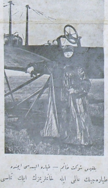 Belkıs Şevket Hanım after flying (November 30, 1913)